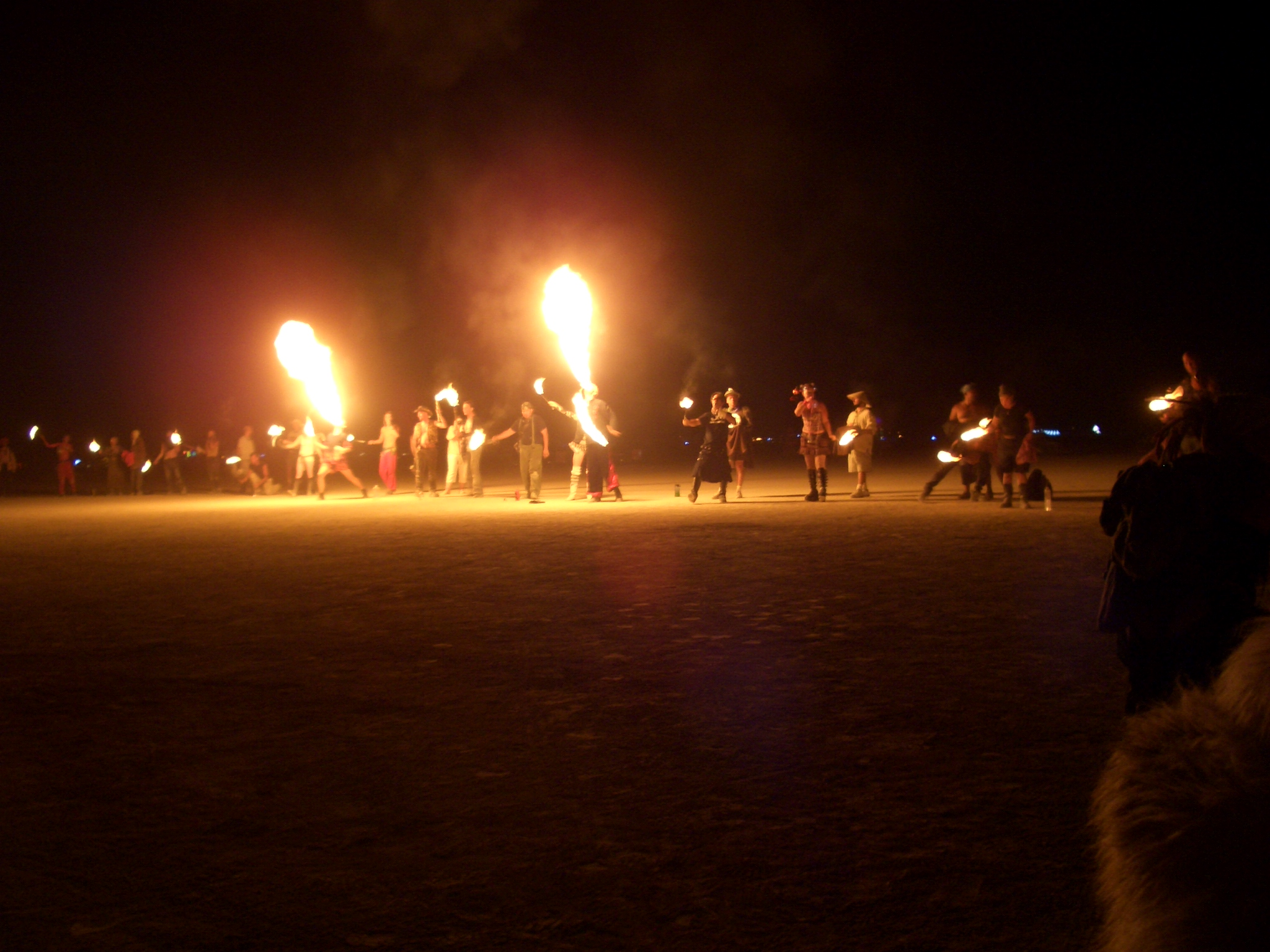 65 fire breathers attempt to break the world record for greatest number of fire breathers in a single display. The attempt was made at Burning Man 2005 in Black Rock City, NV, USA on Sept. 1, 2005. The record was missed by 6 people, but another attempt will be made by the same group in 2006.